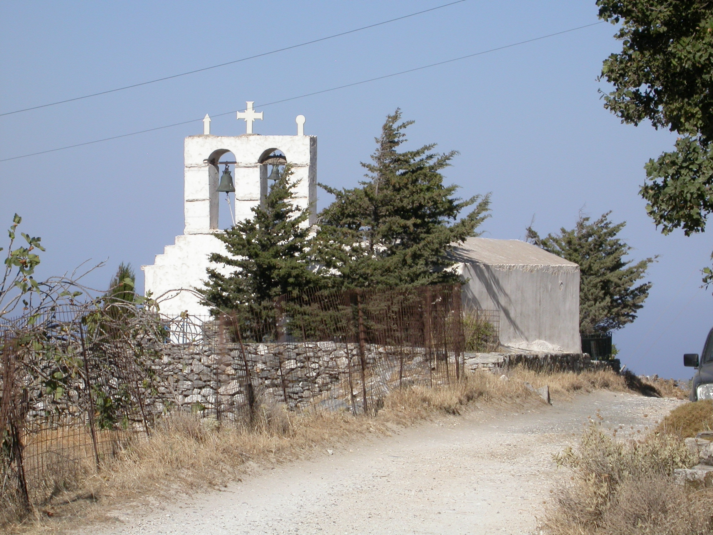 Atsipapi, Naxos, Greece Аҧсшәа: Ο Άγιος Ισίδωρος στην Ατσιπάπη της Νάξου